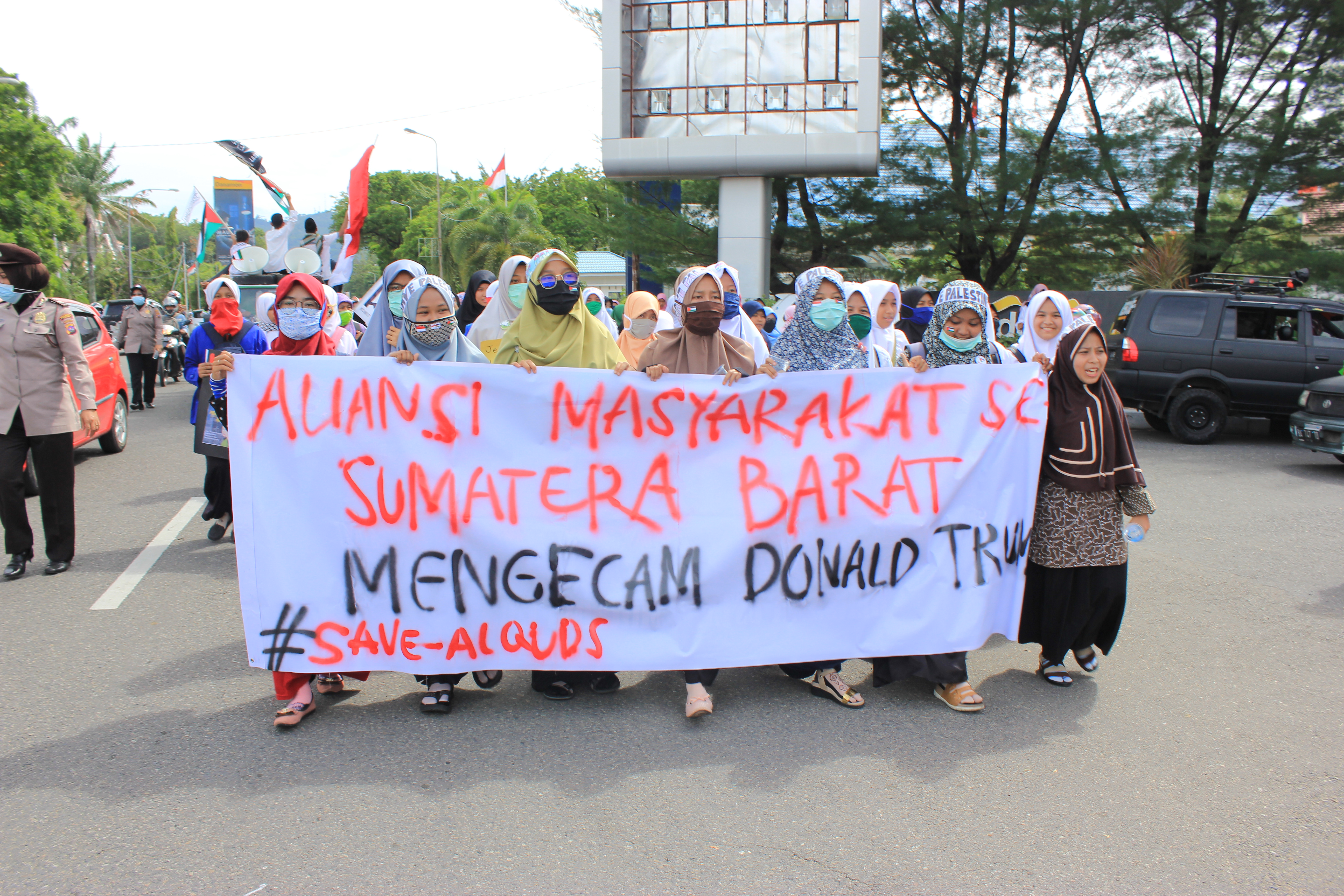 Ribuan masyarakat Kota Padang dan juga dari berbagai organisasi keIslaman se-Sumatera Barat (Sumbar) bersatu turun ke jalan menyatakan sikap membela Palestina, Jumat siang (15/12/2017). Aksi ini menindaklanjuti klaim sepihak dari Presiden Amerika Serikat (AS) Donald Trump yang mengakui Yerusalem sebagai Ibu Kota Israel dan akan memindahkan kantor kedutaan besar AS dari Tel Aviv ke Yerusalem.